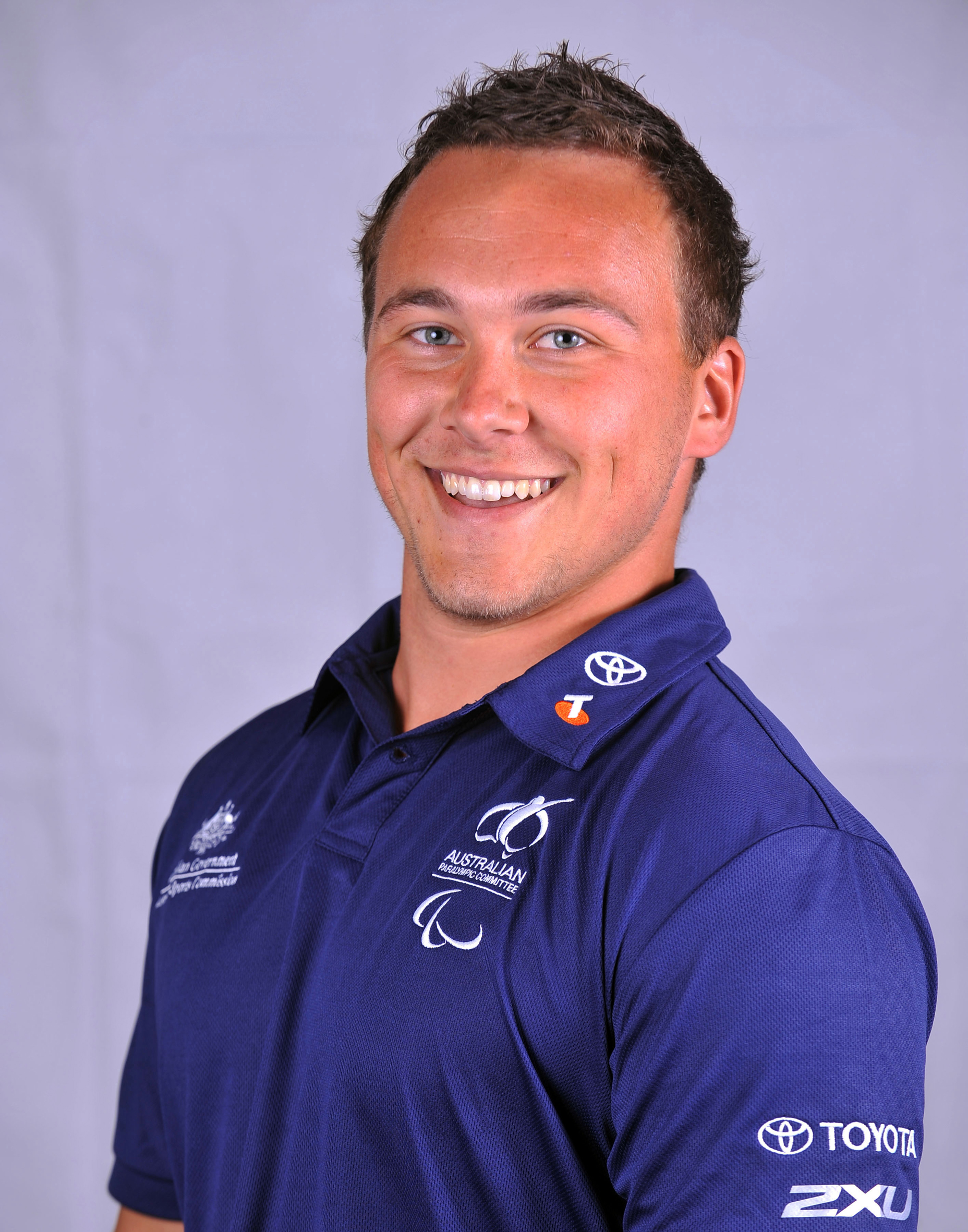 Portrait of Australian athlete Damien Bowen, 2012 Australian Paralympic (shadow) Team athlete